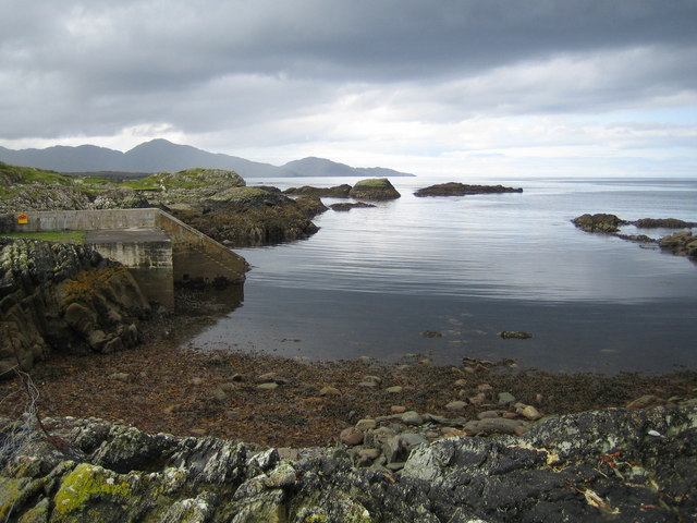 Na hAorai (Eyeries): Quay A small quay near to the village of Eyeries, looking out into Coulagh Bay.